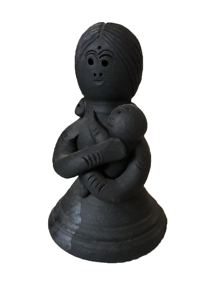 SHOSTHI PUTUL, WEST BENGAL